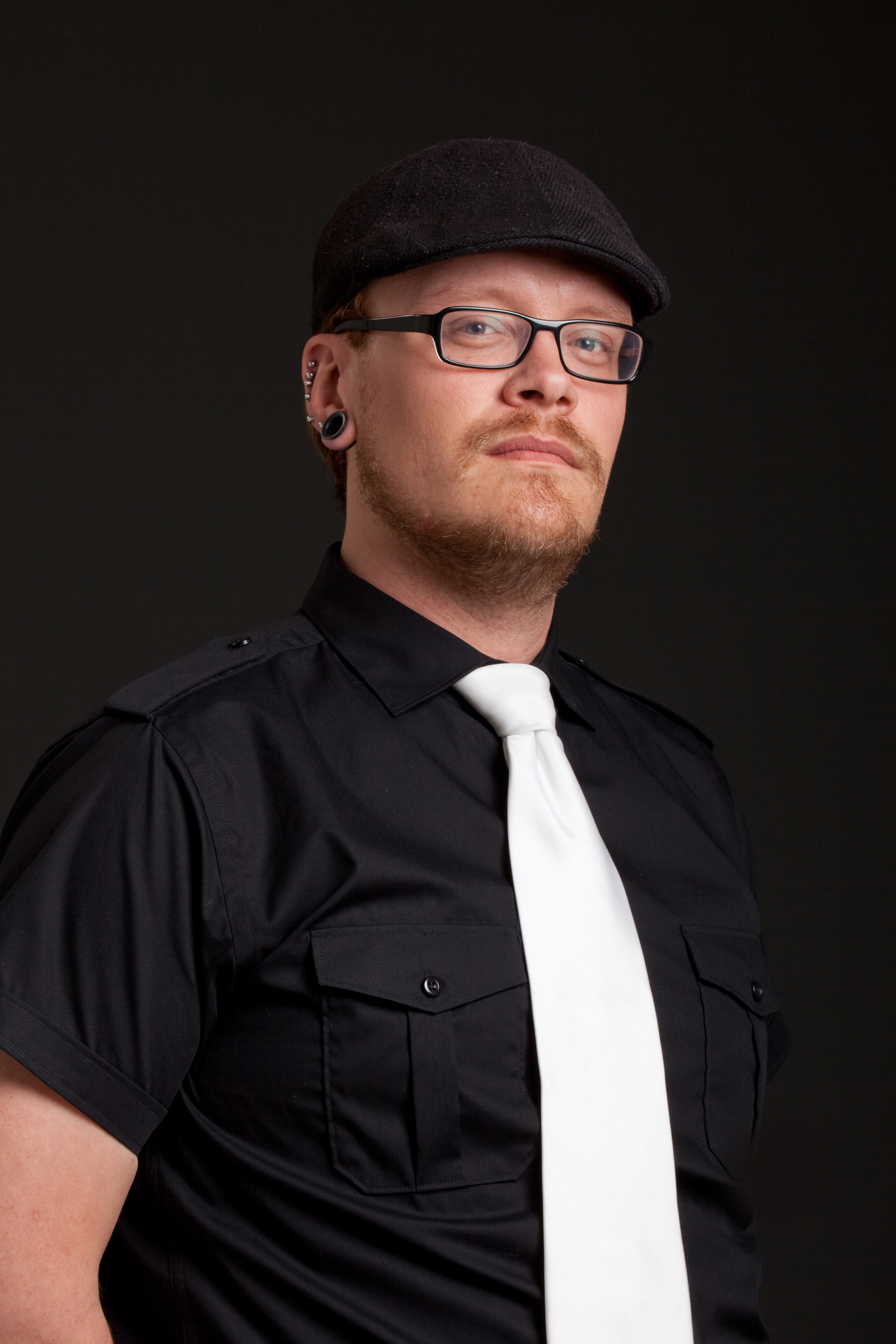 promotional shot